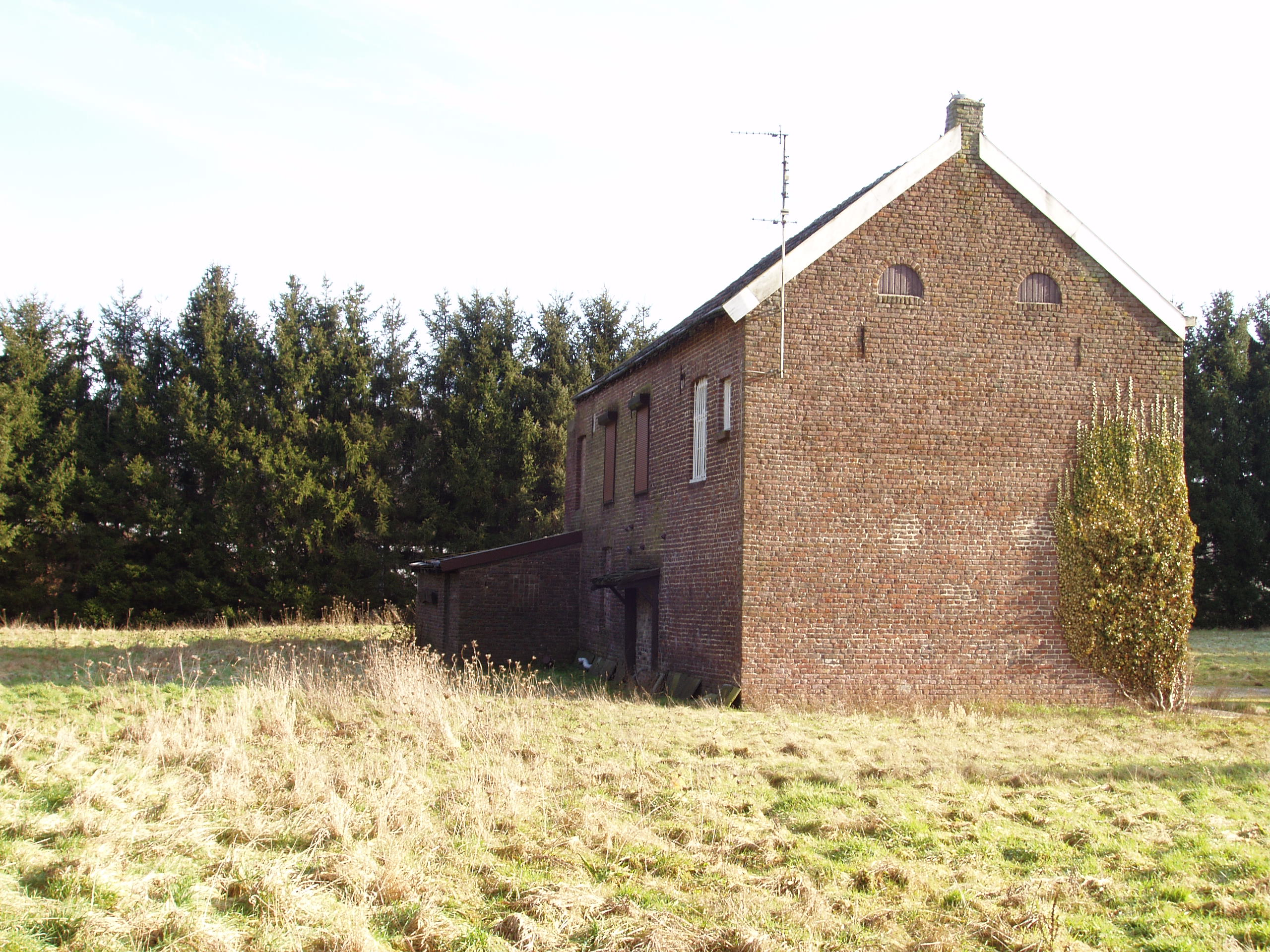 Watermill Brunsummer Molen, Brunssum, Limburg, Netherlands